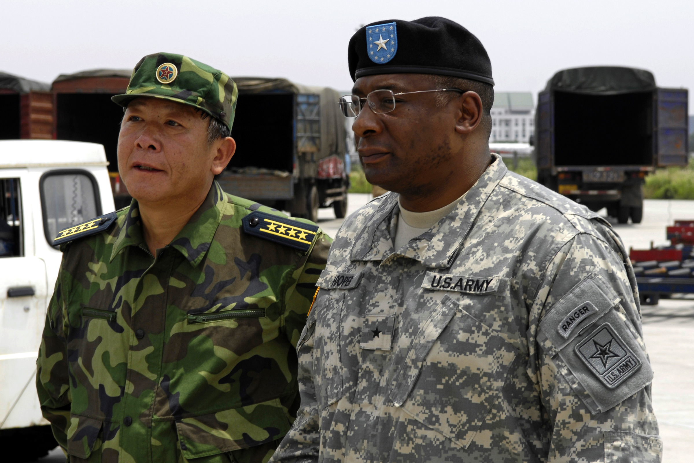 U.S. Army Brig. Gen. Charles W. Hopper (right), a Defense attache, observes relief operations with Senior Capt. Guan Youfei, deputy director for the Chinese Defense Ministry's foreign affairs office as the crew from a C-17 Globemaster III from Hickam Air Force Base, Hawaii, unload relief supplies at Chengdu Shuangliu International Airport in China, May 18, 2008. The U.S. Pacific Command support of earthquake relief efforts was authorized by Defense Secretary Robert Gates, in support of the U.S. Department of State.